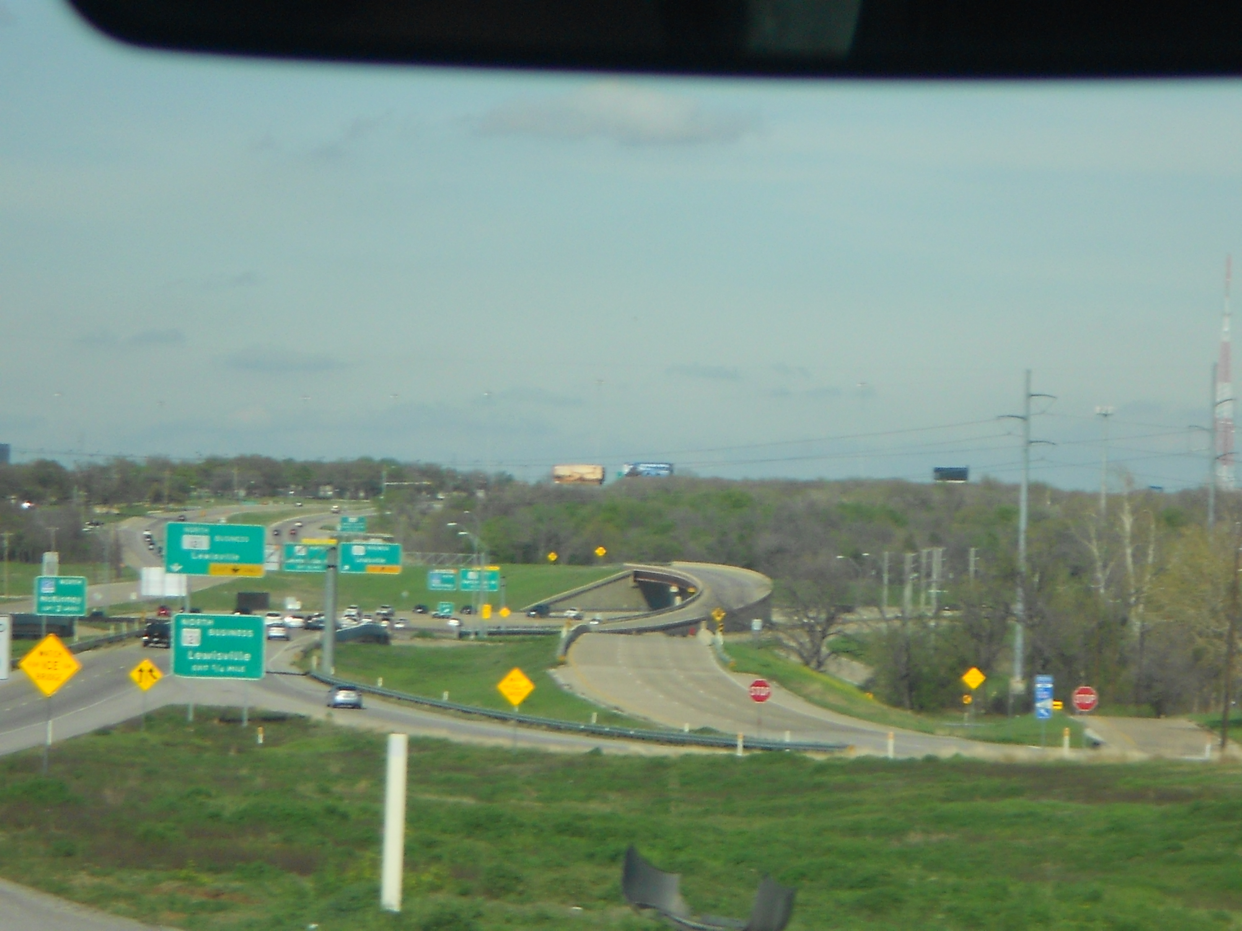 View of the interchange between freeway Texas State Highway 121 and the Texas State Highway 121 Business Route, located in Lewisville, Texas.